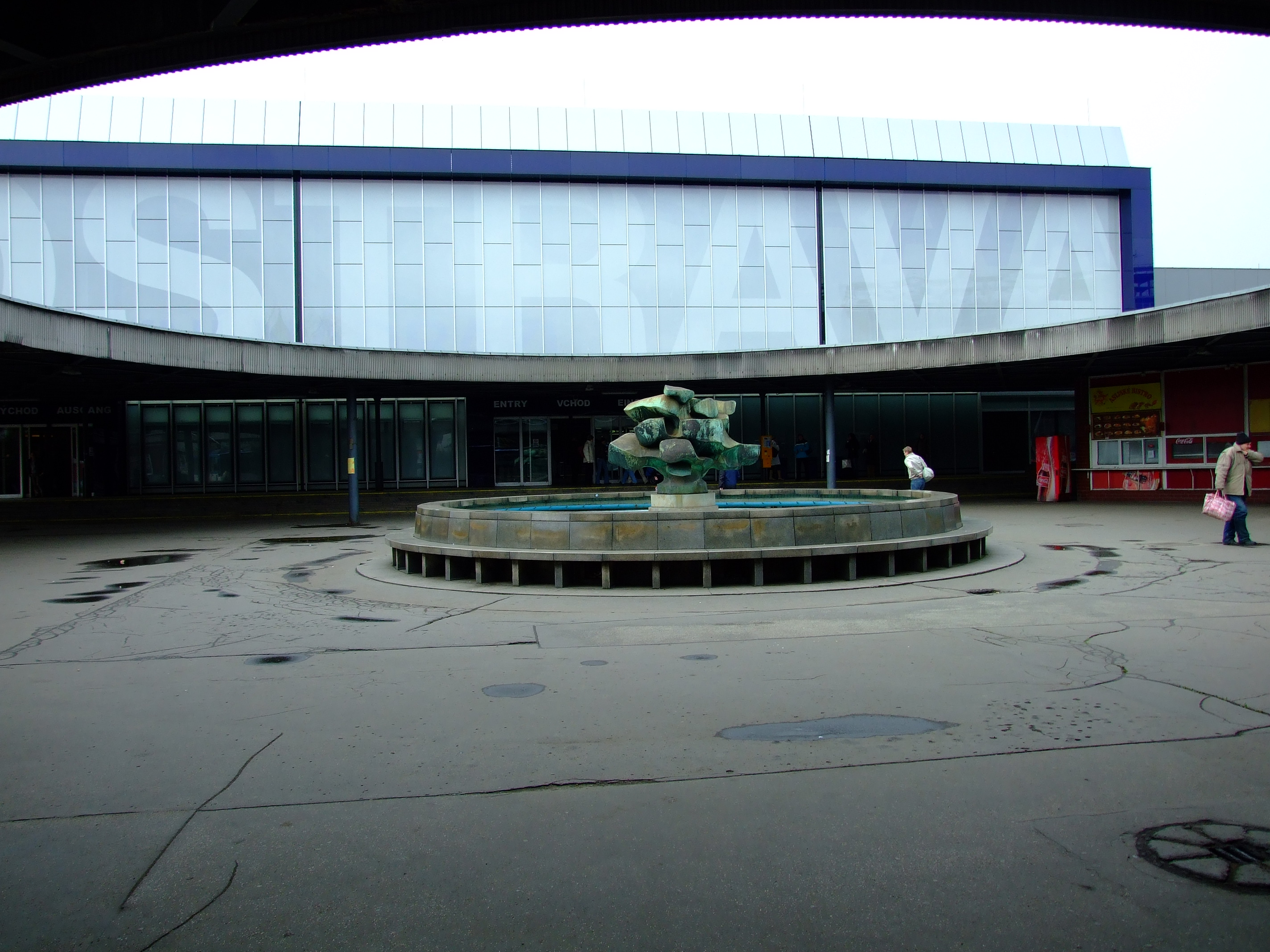 Main rail station terminus in Ostrava, CZ